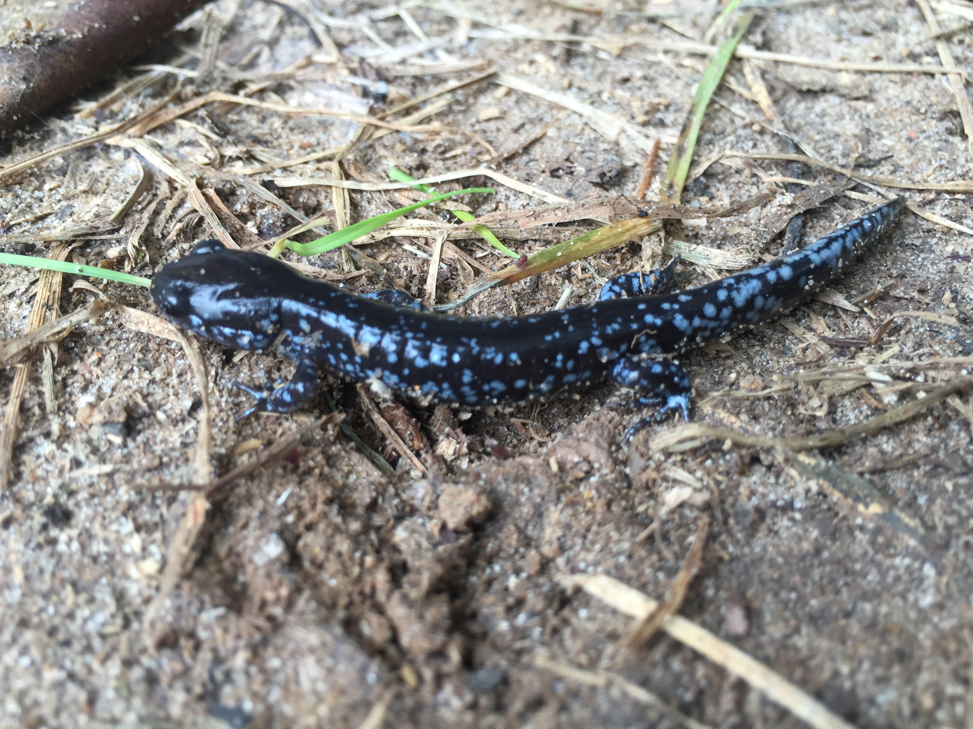 Blue-spotted salamander ((Ambystoma laterale) at Enzo Creek Nature Sanctuary